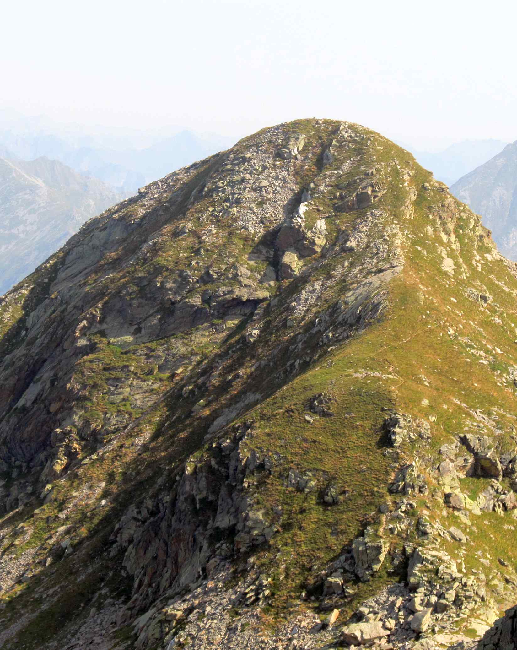 Punta della Barma from monte Rosso